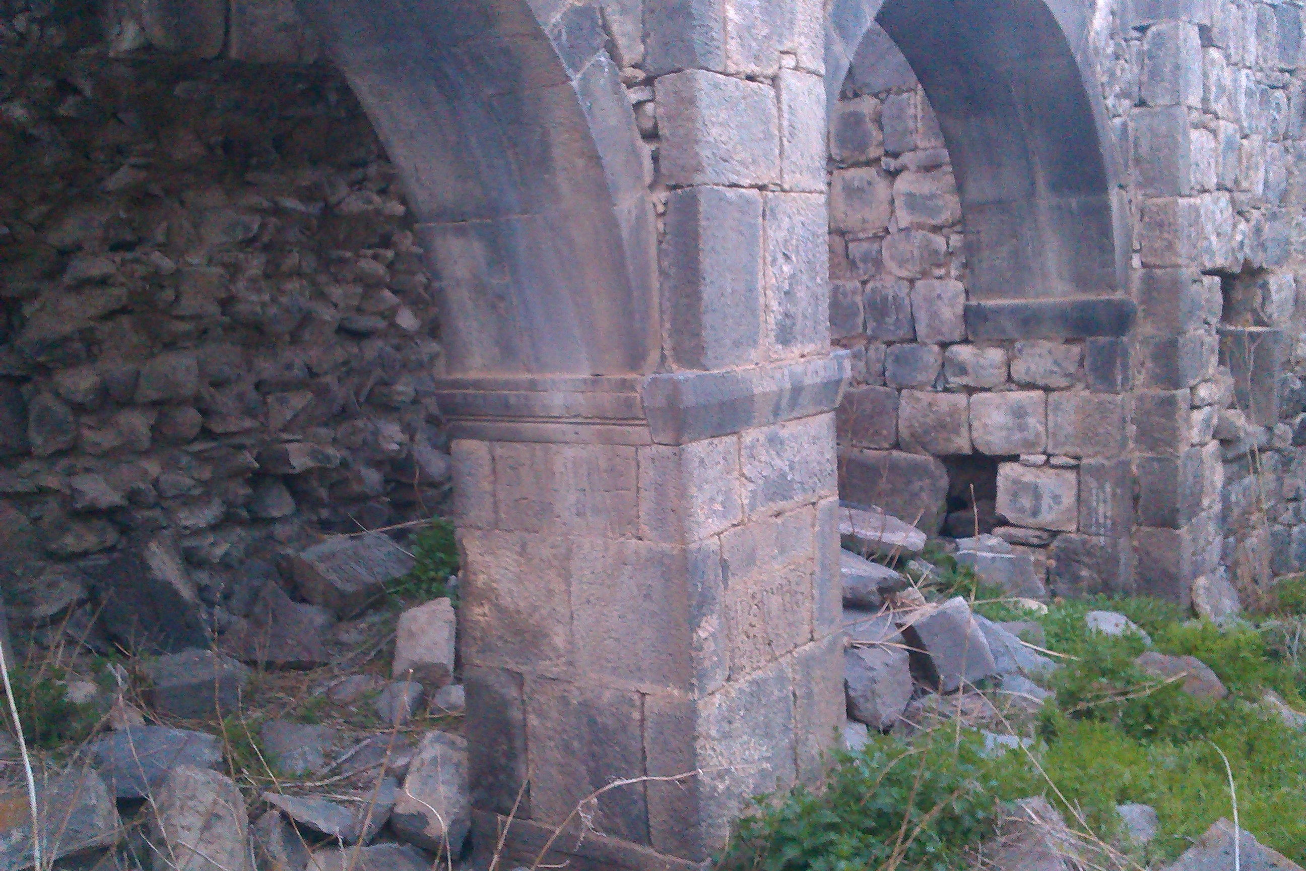 Hermon church